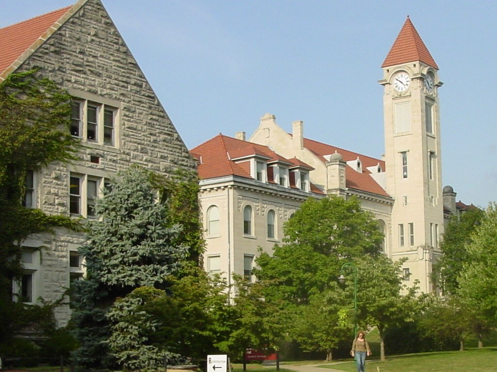 Franklin Hall (left) and Student Building (right), Indiana University Bloomington, USA